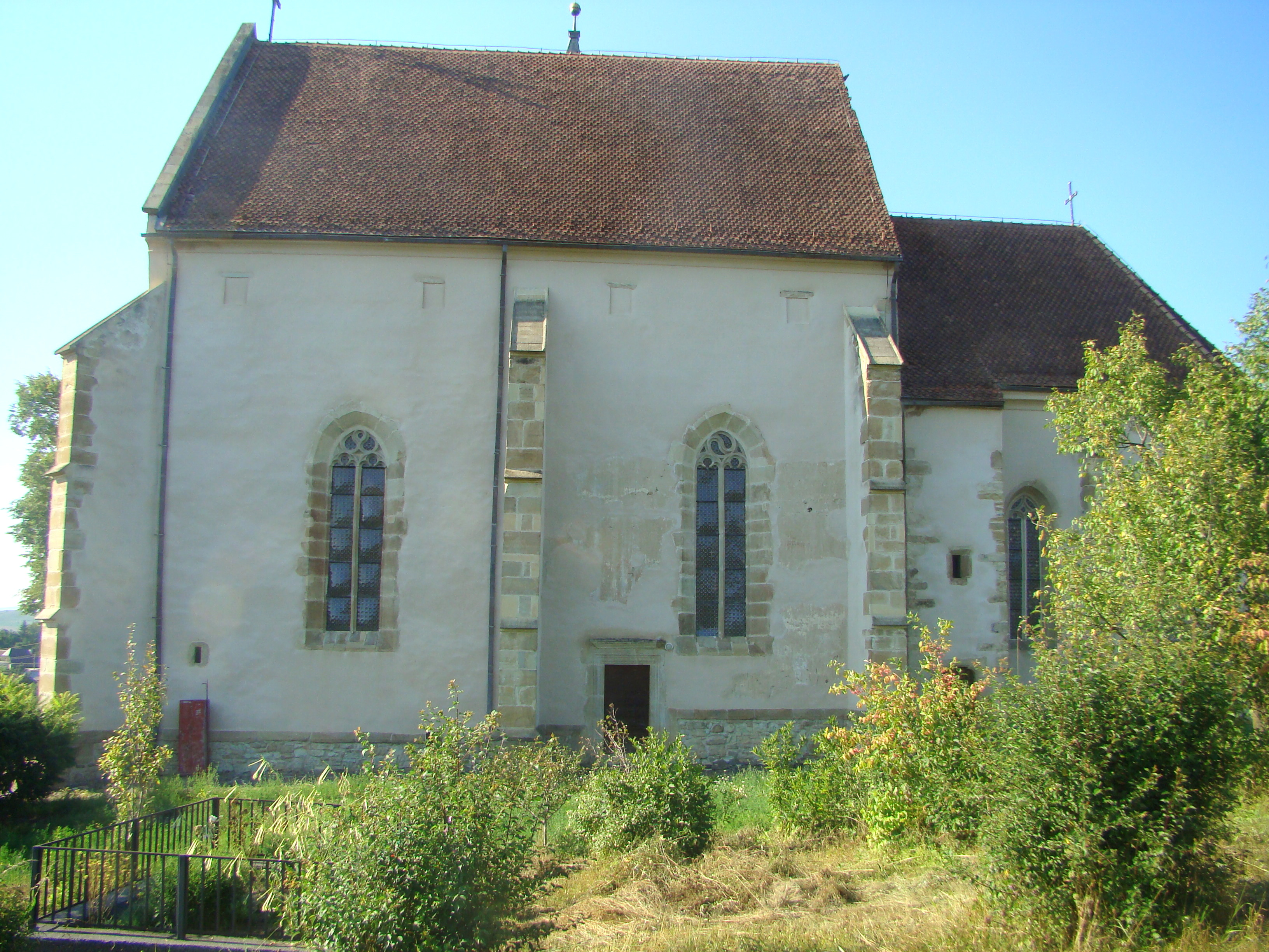 Lutheran church in Tărpiu, Bistrița-Năsăud county, Romania